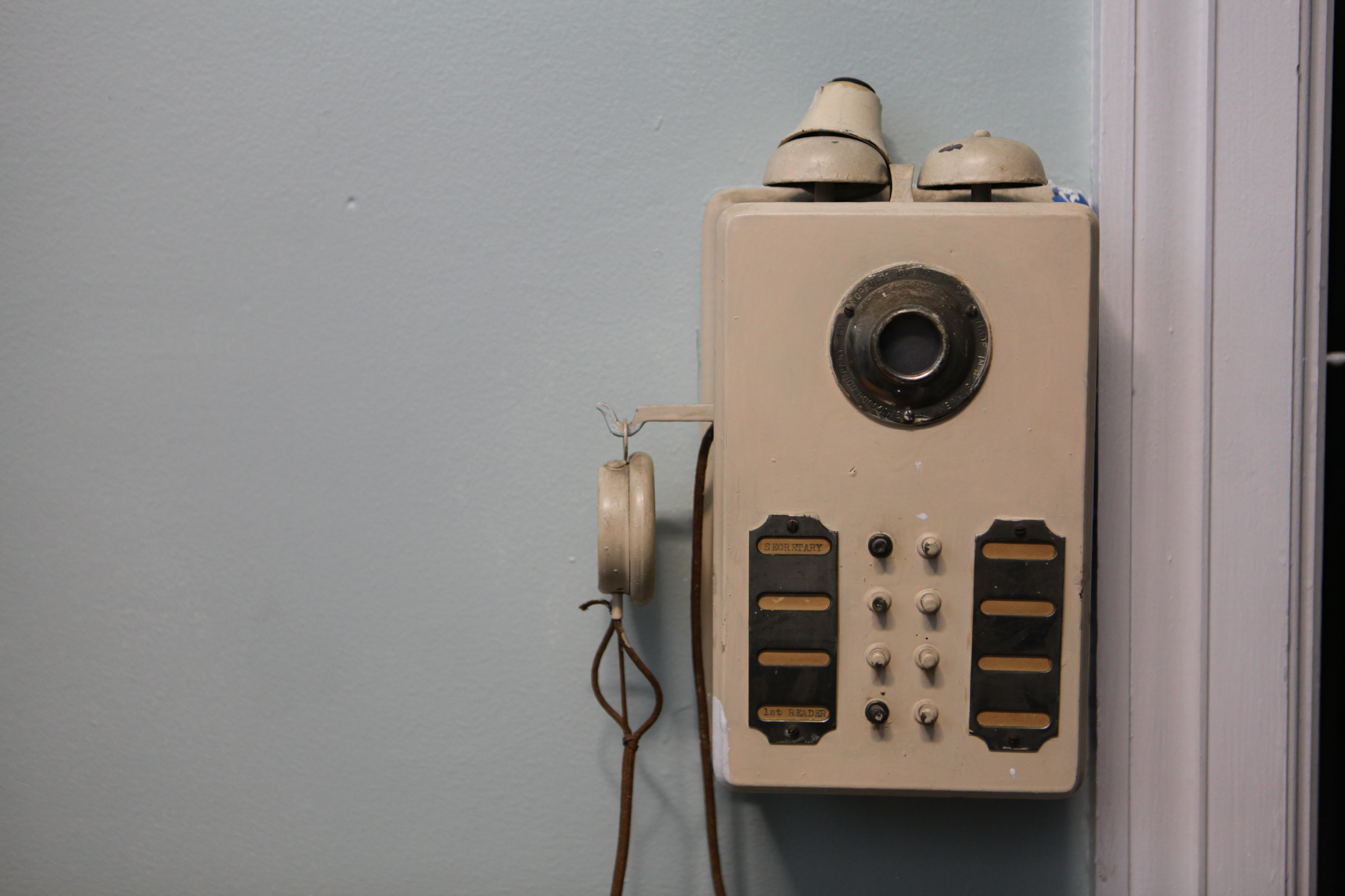 IMG_5053 - Vintage wall intercom at Internet Archive